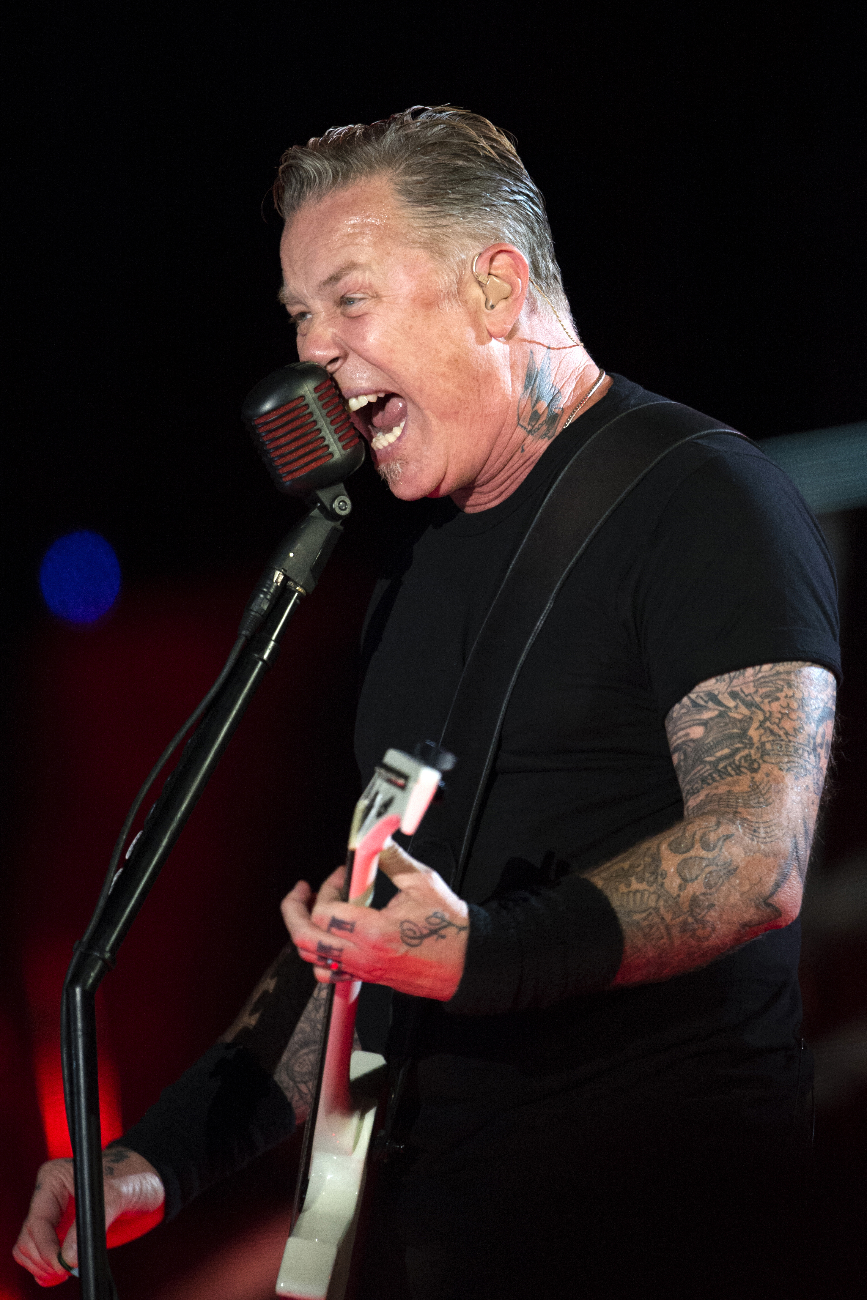 Metallica’s lead singer James Hetfield plays guitar during The Concert for Valor in Washington, D.C. Nov. 11, 2014. DoD News photo by EJ Hersom